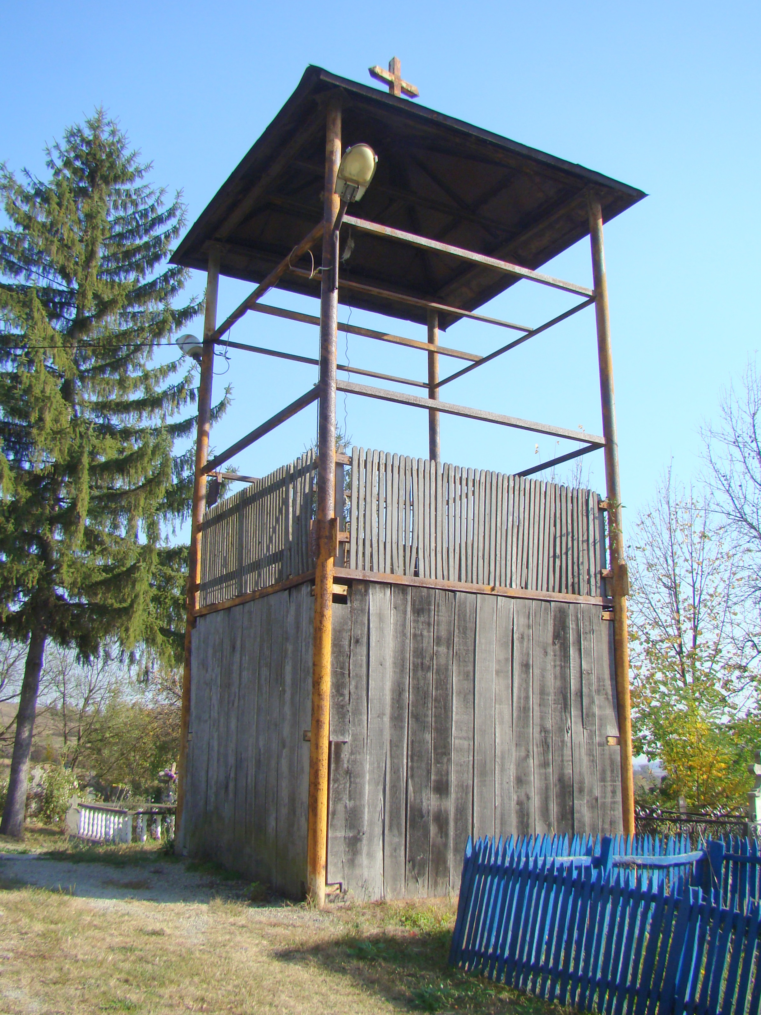 Saint George's wooden church in Valea Mânăstirii, Gorj county, Romania